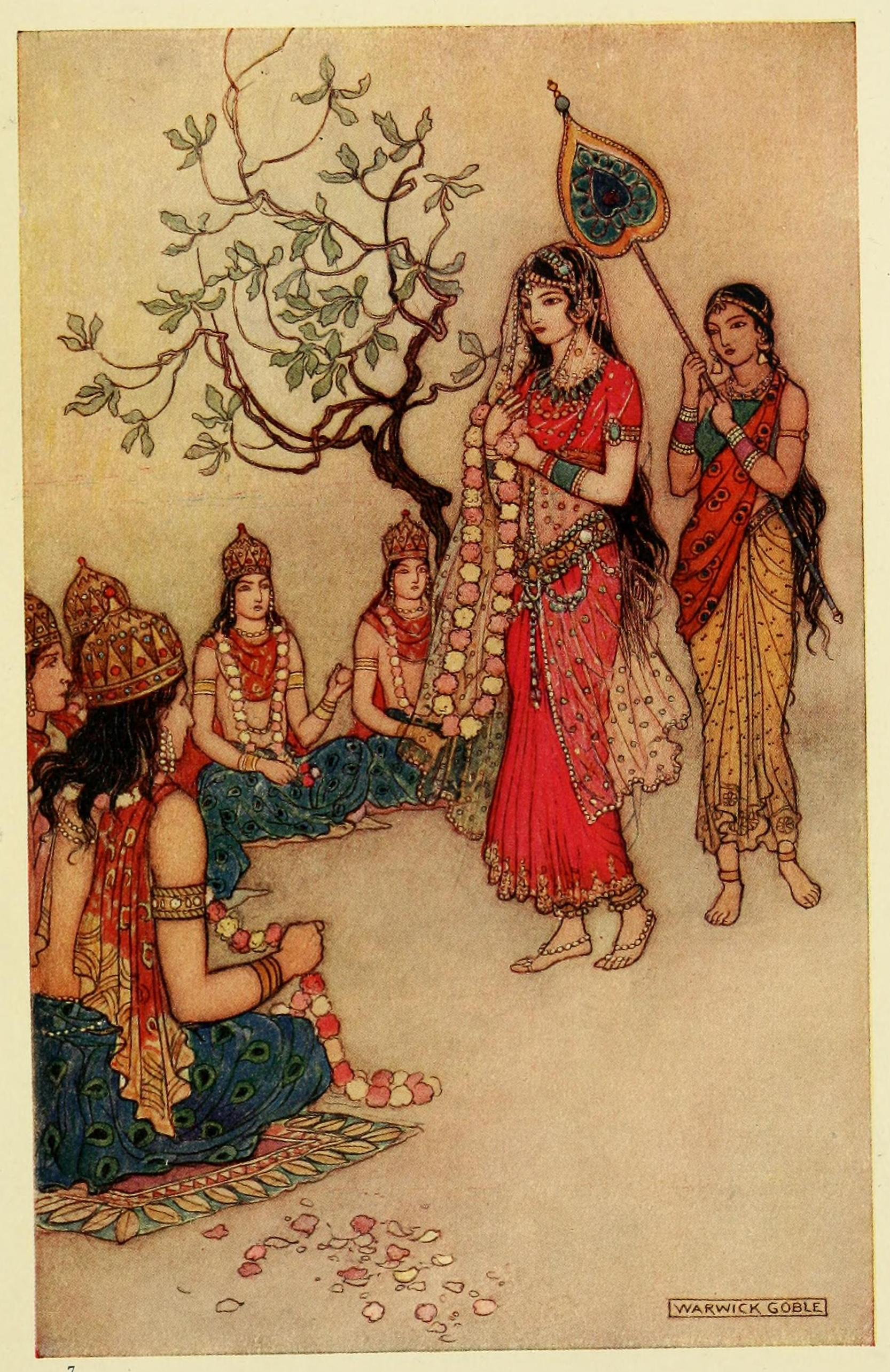 Author: Mackenzie, Donald Alexander, 1873-1936; Goble, Warwick Subject: Mythology, Hindu; Legends Publisher: London : Gresham Language: English Digitizing sponsor: Boston Library Consortium Member Libraries Book contributor: University of Connecticut Libraries Collection: uconn_libraries; blc; americana Full catalog record: MARCXML [Open Library icon]This book has an editable web page on Open Library.